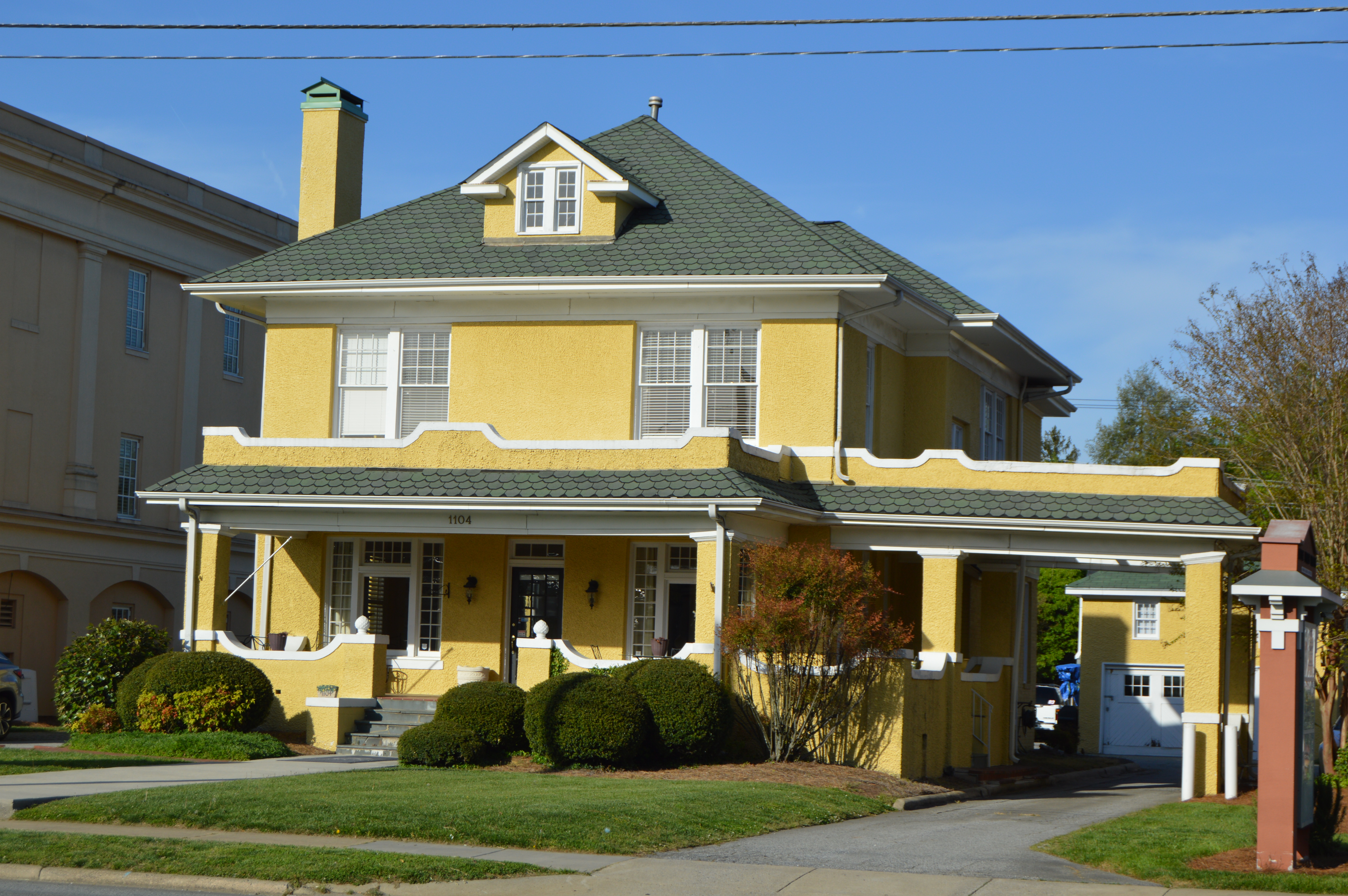 Front of the J. C. Siceloff House, located at 1104 N. Main Street in High Point, North Carolina, United States. Built in 1920, it is listed on the National Register of Historic Places.